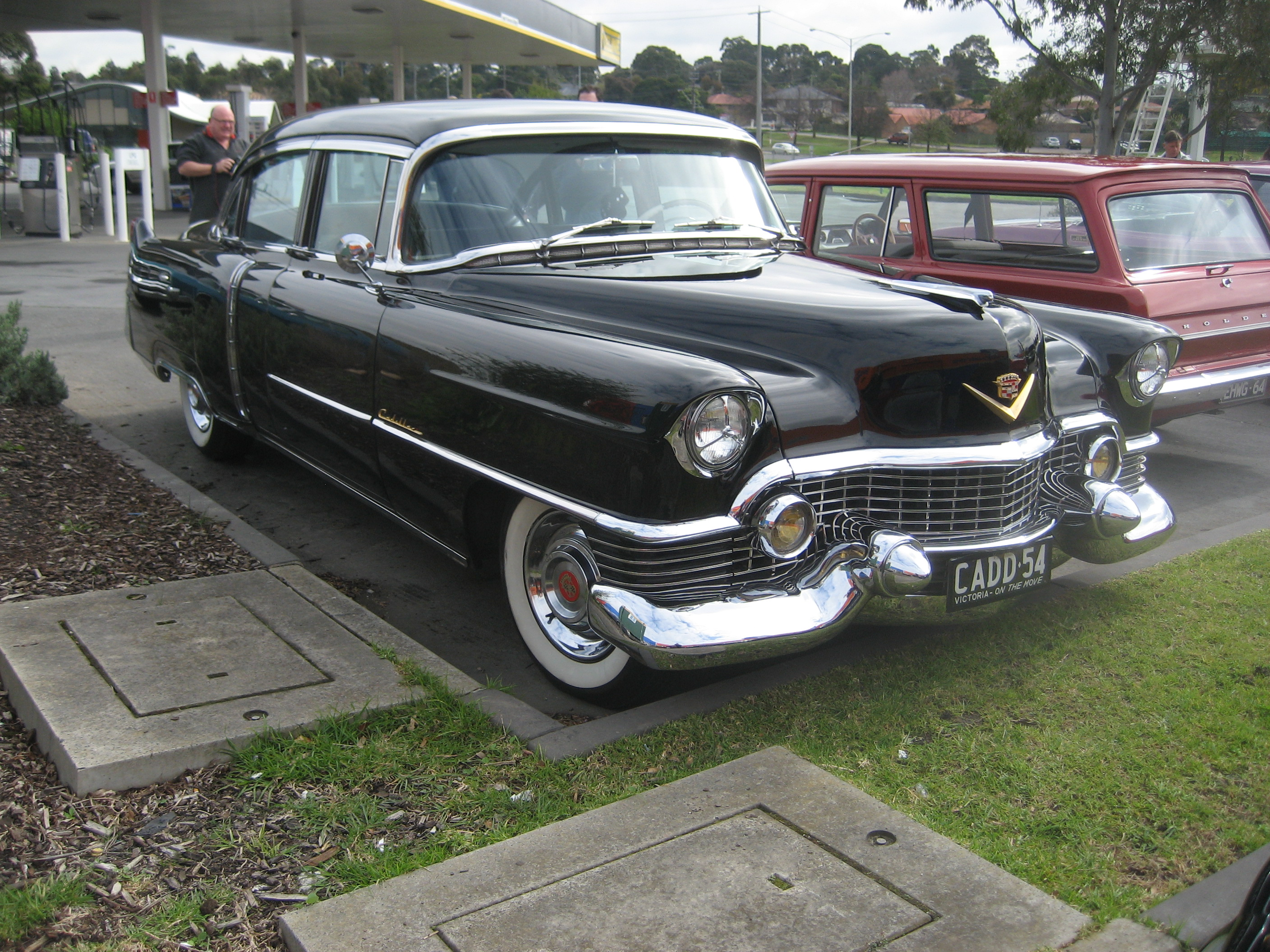 Available in Sedan, Coupe or Convertible. Engine; 331 cu in V8